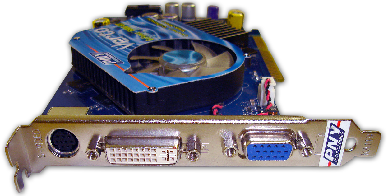 PNY Verto GeForce 6600GT graphics card.